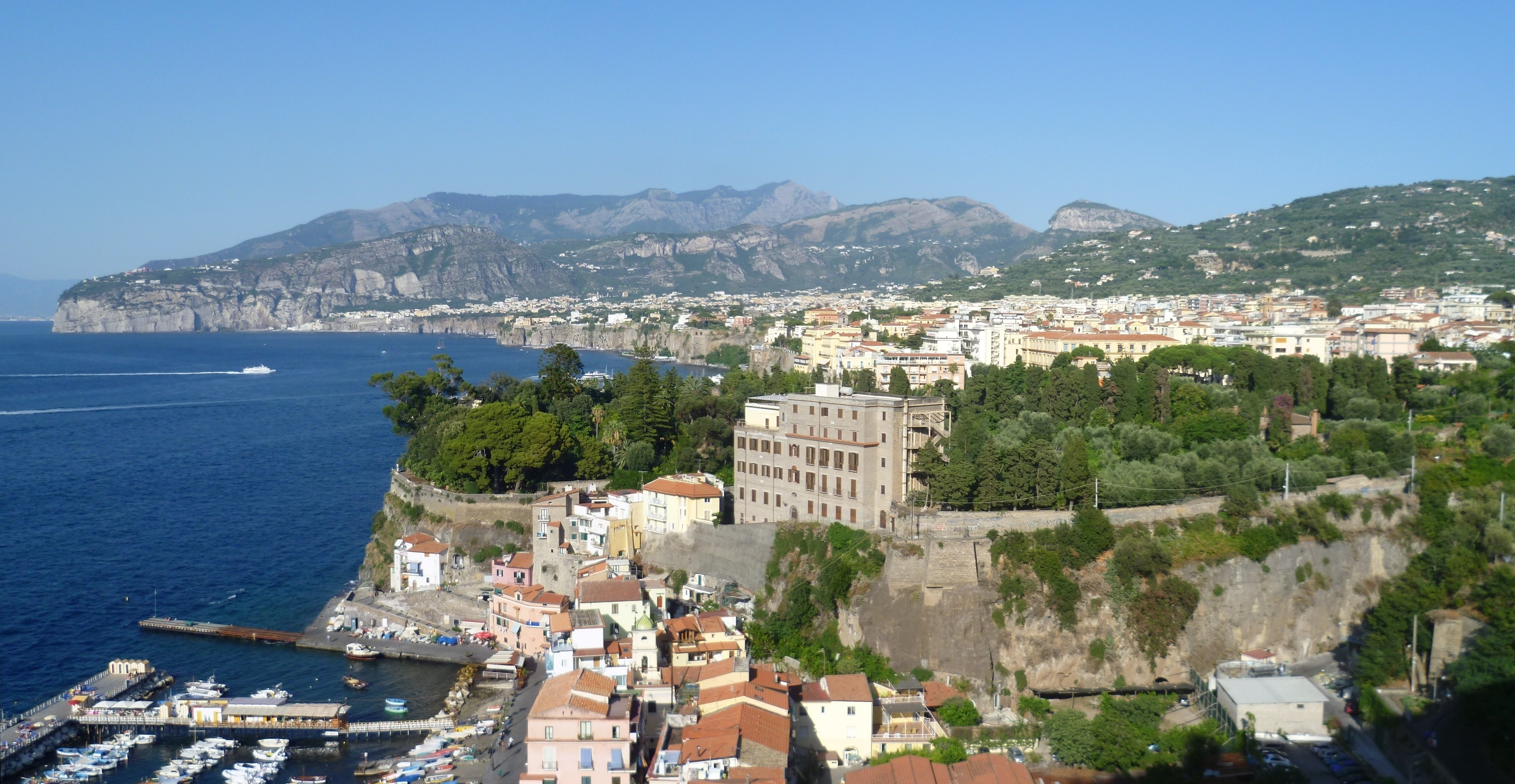 View of Sorrento